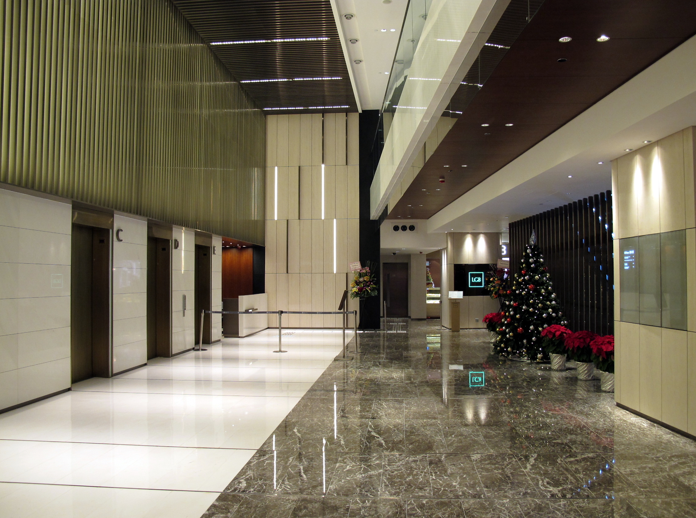 LHT Building Lobby 陸海通大廈